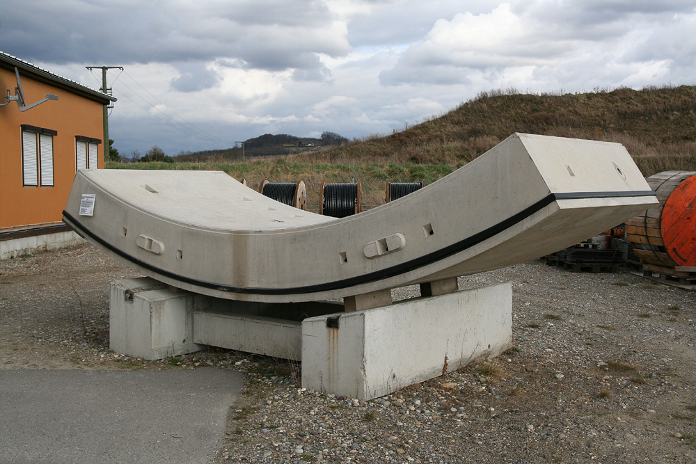 A tubbing is presented on the construction site of the Katzenberg Tunnel.